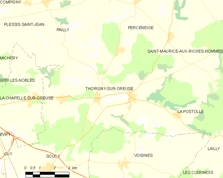 Map of French municipality Thorigny-sur-Oreuse